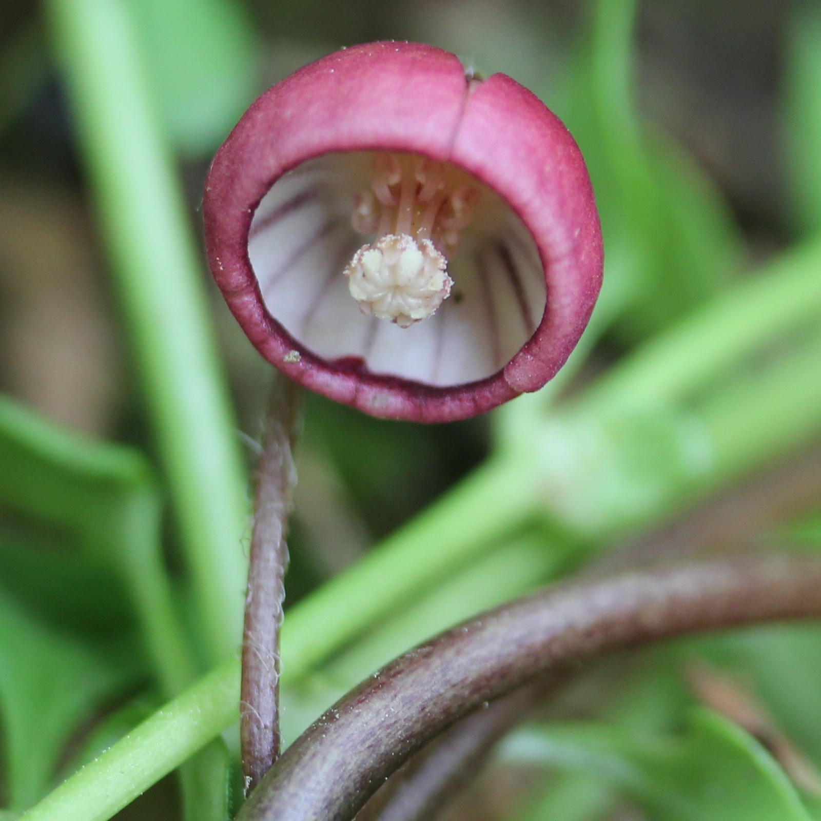 Asarum caulescens in Mount Ibuki